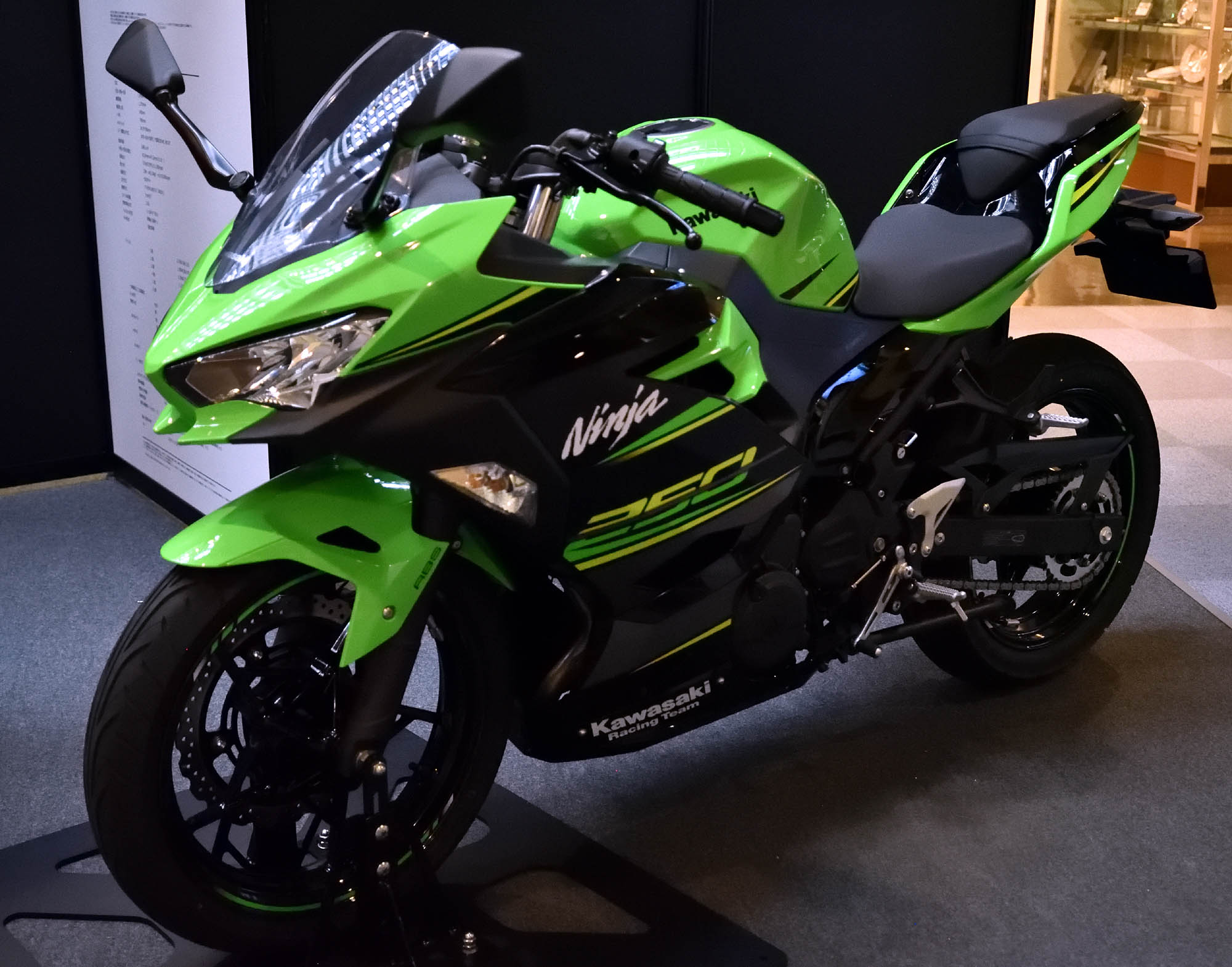 Kawasaki Ninja 250 (2018)